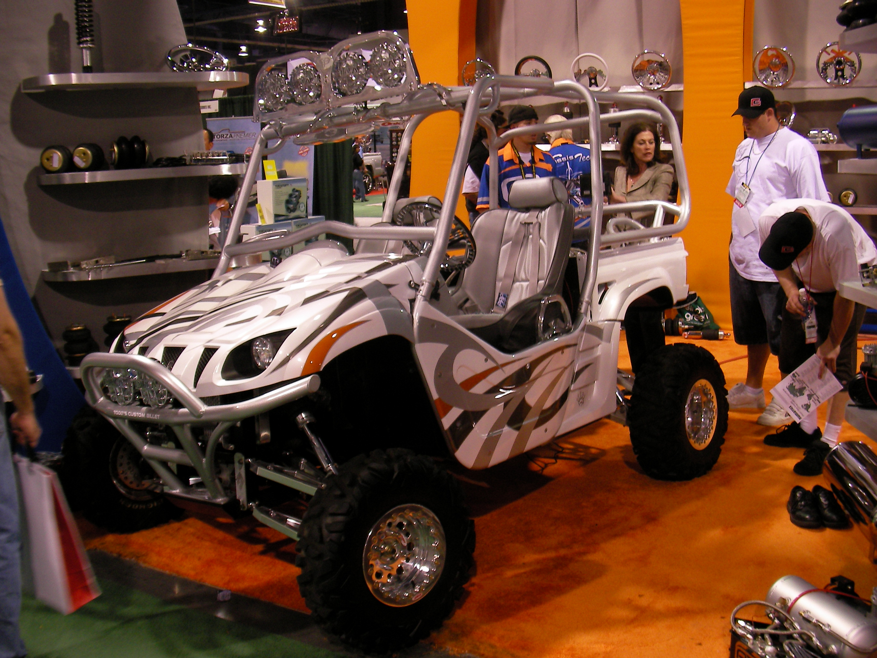 A Yamaha Rhino at the 2006 SEMA Show